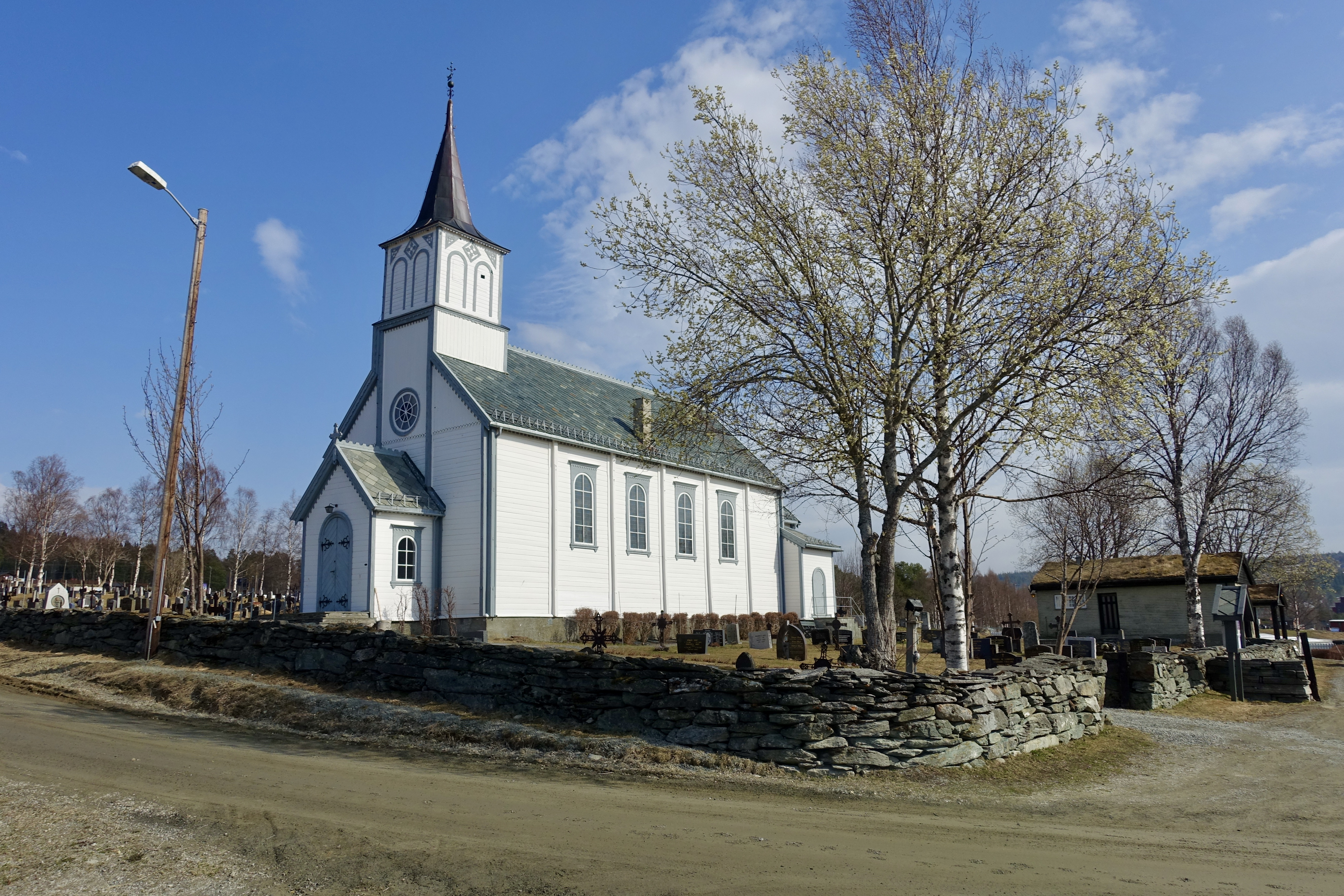 Berkåk kirke/kyrkje, a small Lutheran wooden church built 1878, with surrounding grave yard/church yard/cemetery, in Rennebu Municipality in Trøndelag, Norway. Photo taken on a sunny spring day April 25th, 2019.